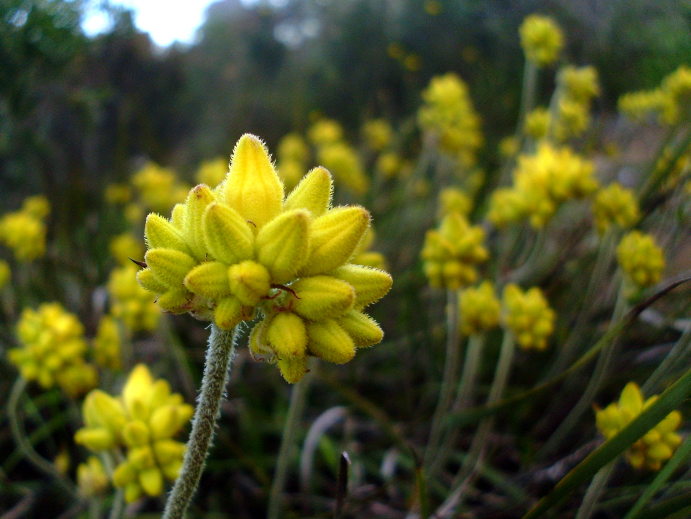 Conostylis aculeata